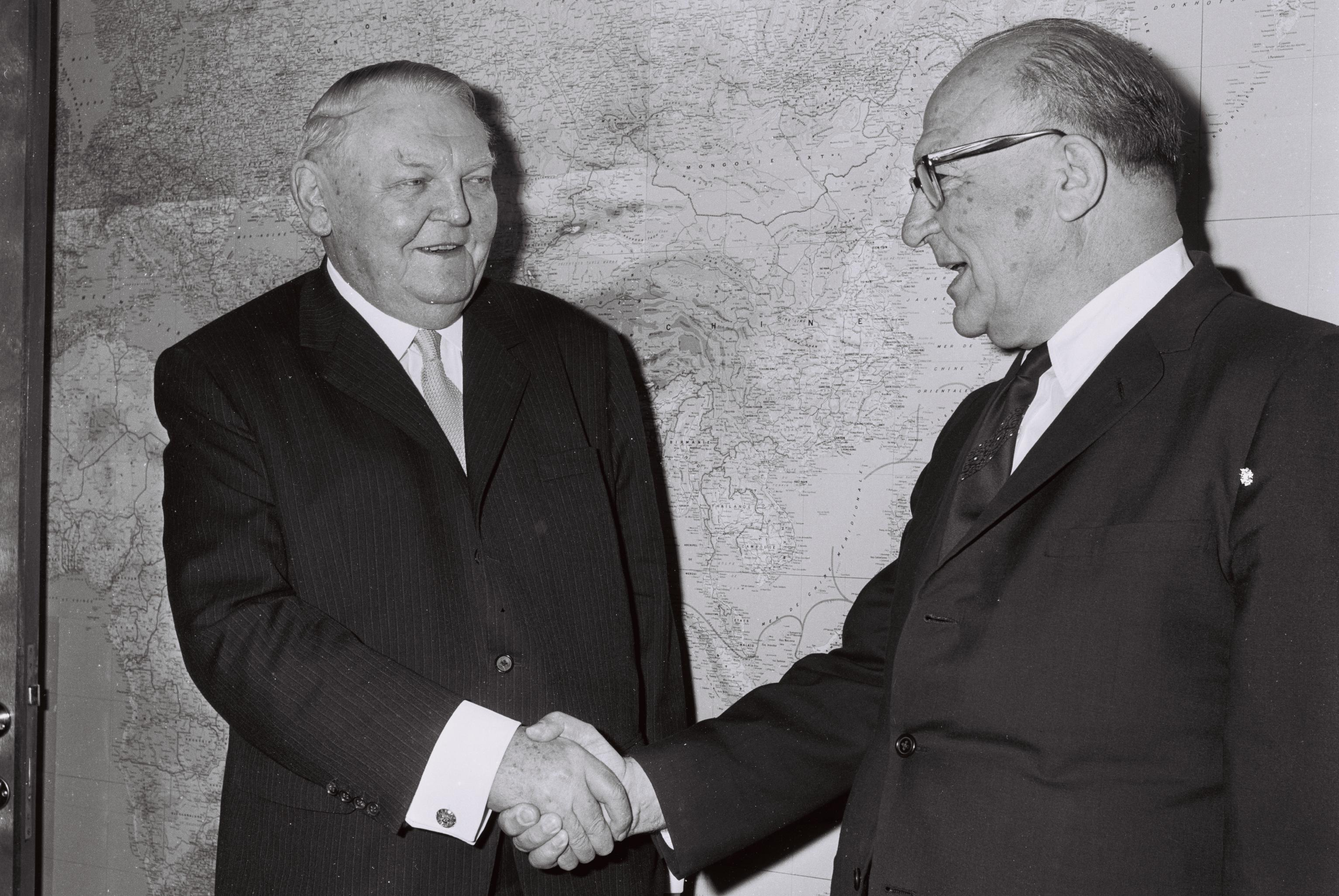 Former German Chancellor Ludwig Erhard and Prime Minister of Israel Levi Eshkol at the Prime Minister's Office in Jerusalem, October 30, '67.